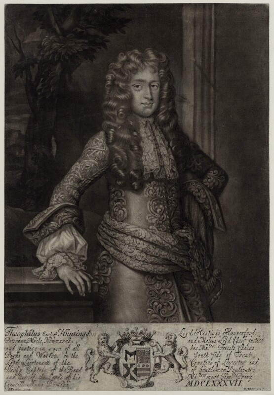 Portrait of Theophilus Hastings, 7th Earl of Huntingdon (1650–1701), English peer.